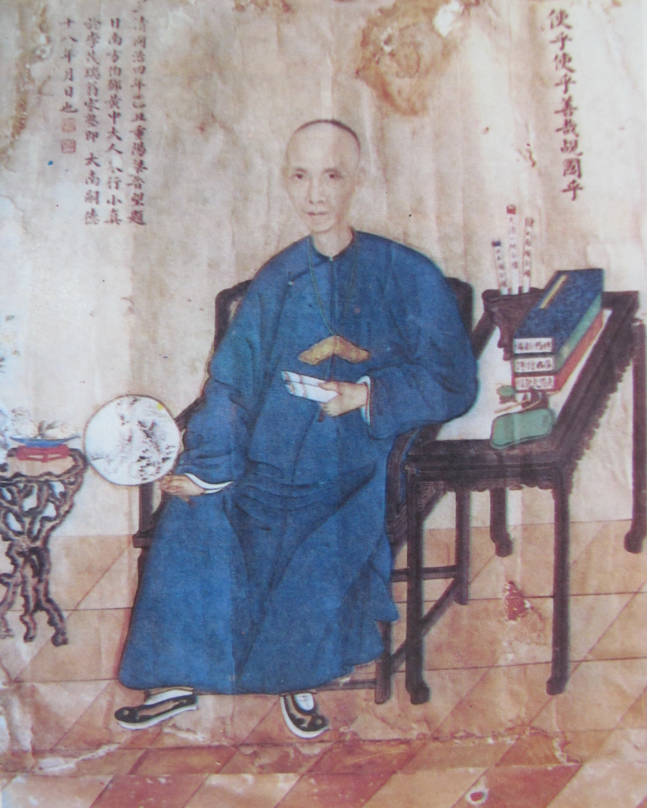 Portrait of Annamese officer Đặng-huy-Trứ at Guangdong 1865 by Li Ruiyan.